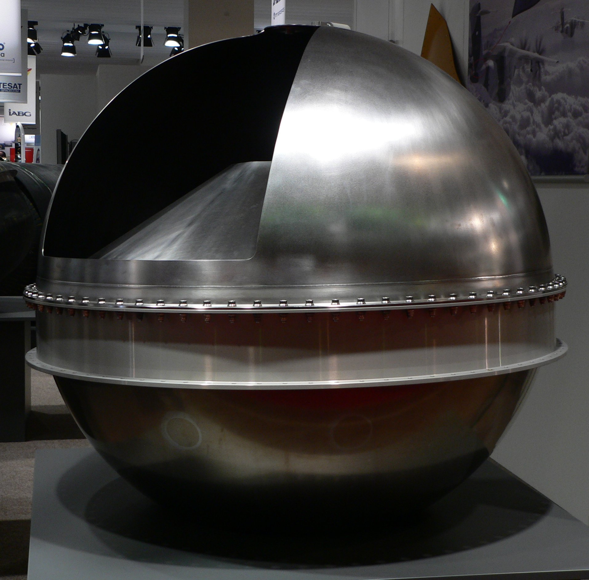 Fuel tank for the ATV cargo carrier, by MT Aerospace